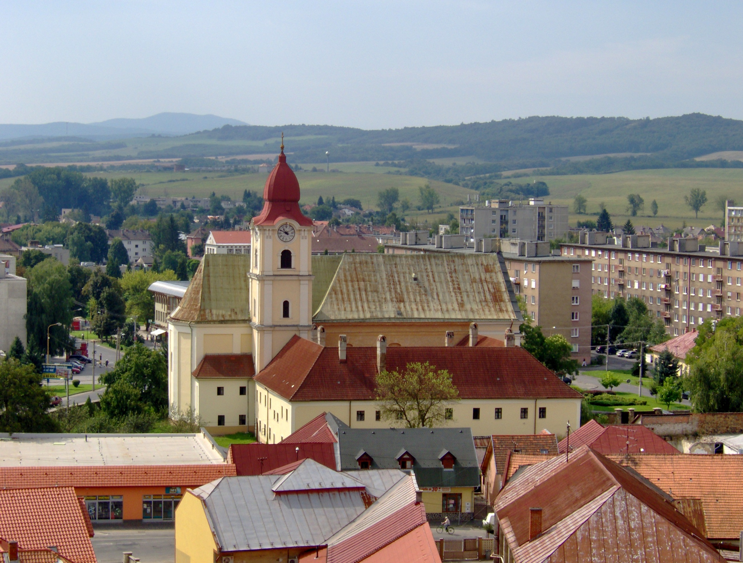 View from Filakovo Castle